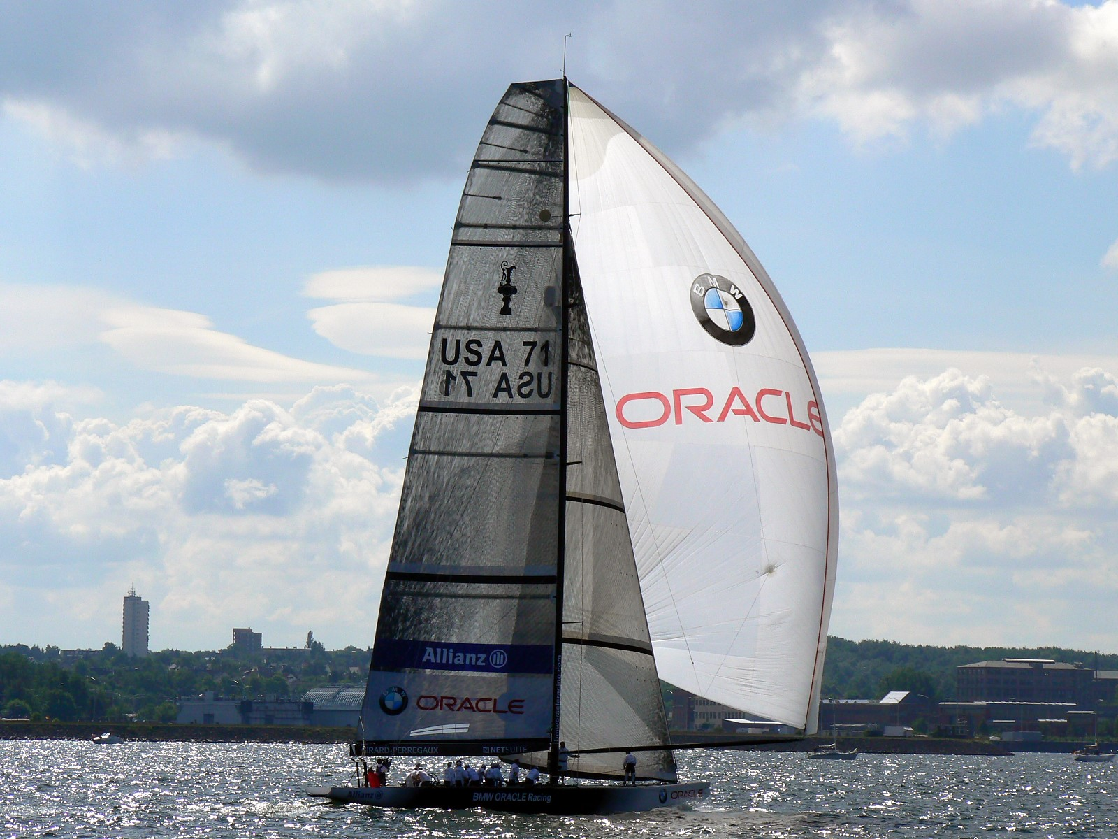 German Sailing Grand Prix Kiel 2006. Team: BMW Oracle Racing.